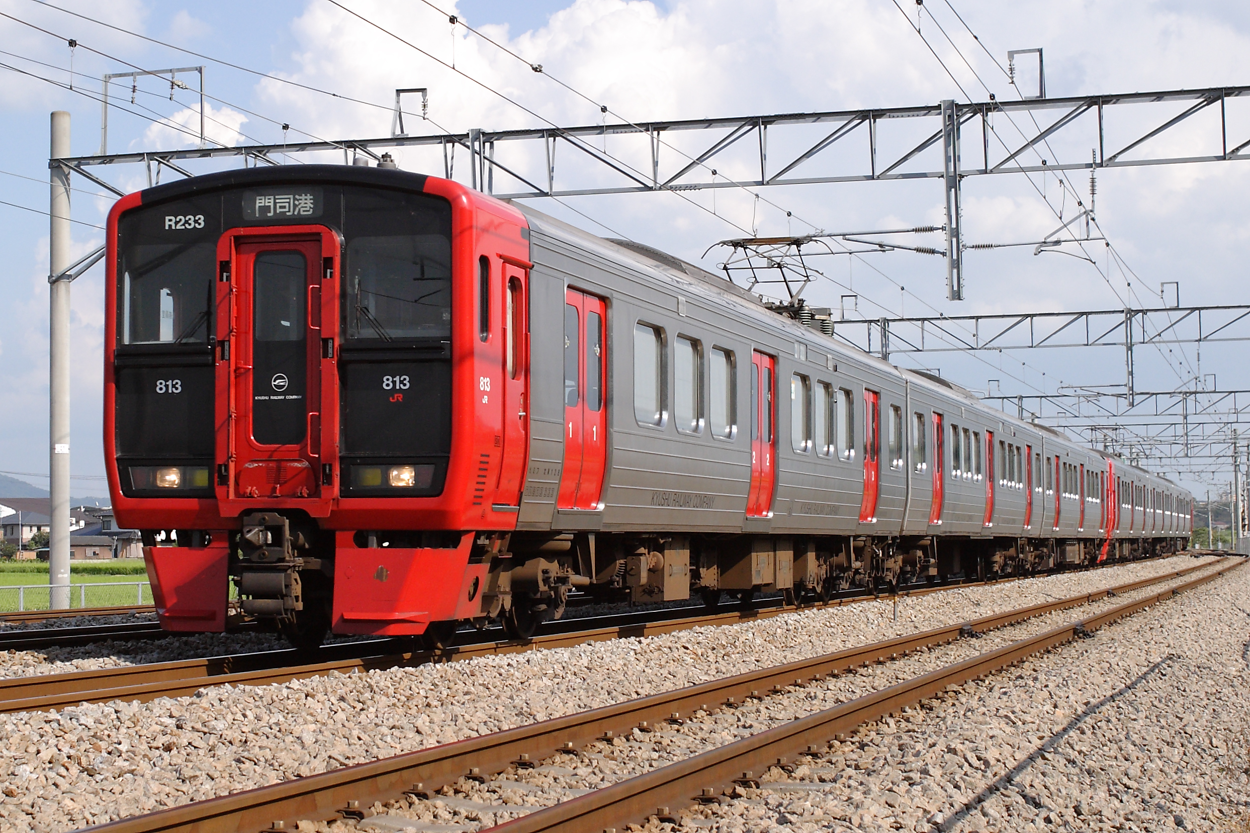 JR Kyushu 813-200 - RM233 - Kagoshima Main Line - Dazaifu